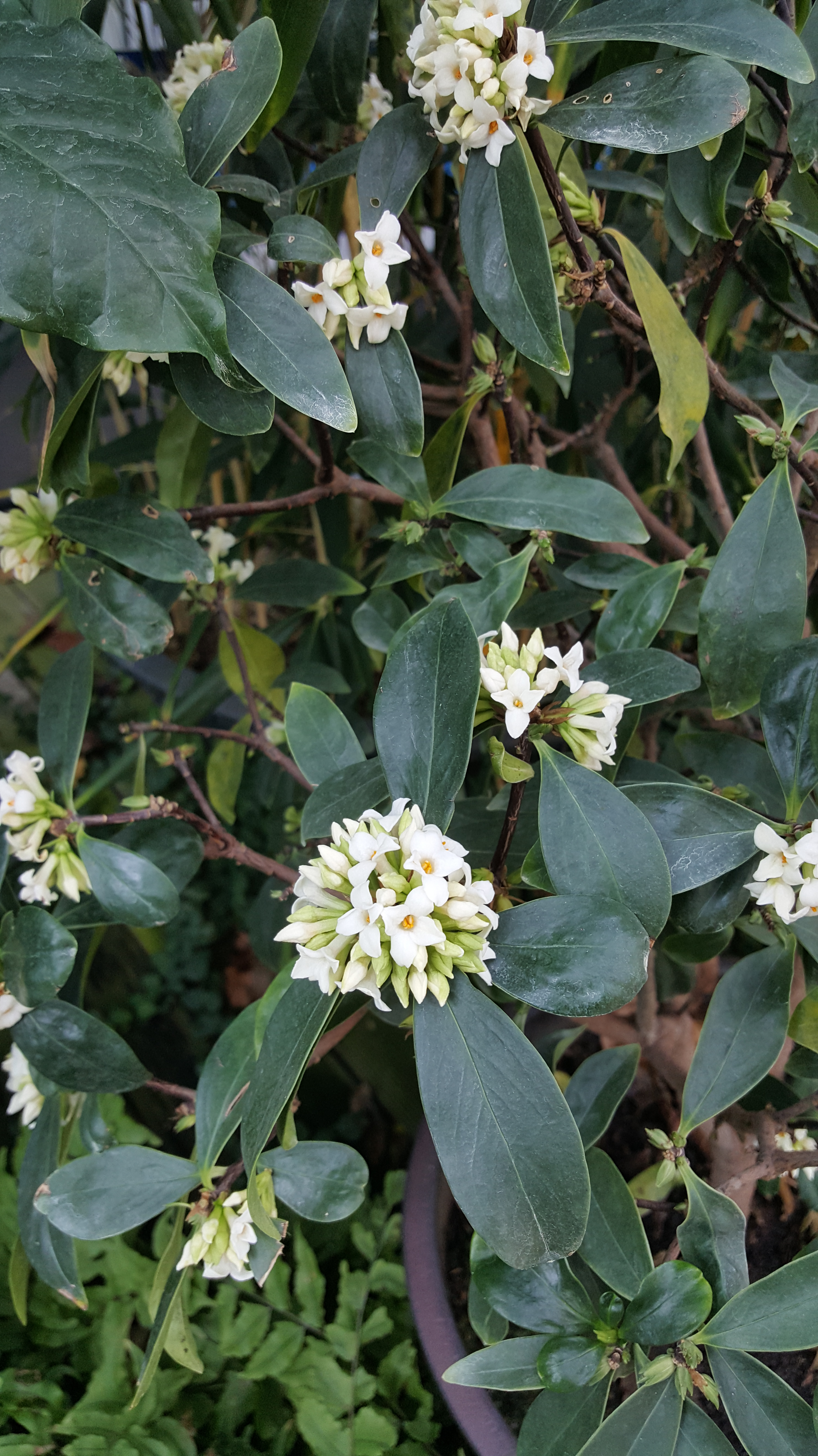 Daphne Odora in Korea and Japan, in Latin Daphne kiusiana Miq.